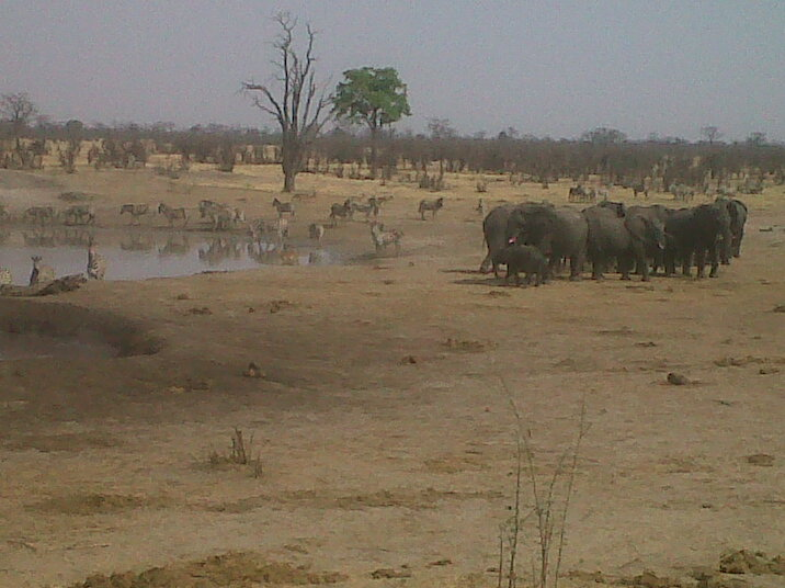 Shumba Pan, Hwange National Park